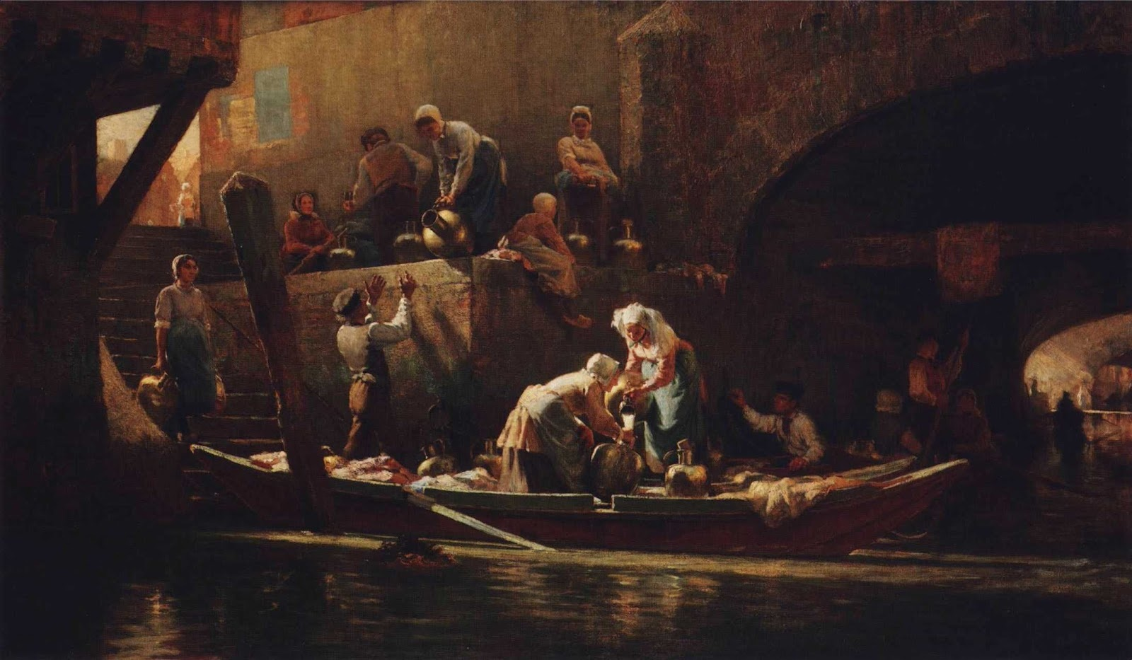 Het grote kanaal, Dordrecht, Holland